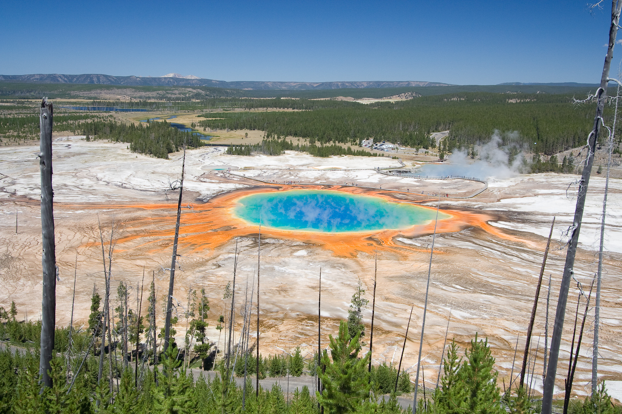 From above (Fairy Falls trail :-))